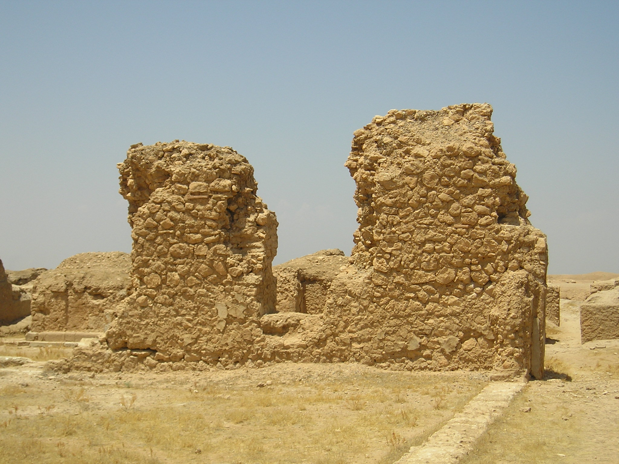 Dura Europos, Syria - Praetorium